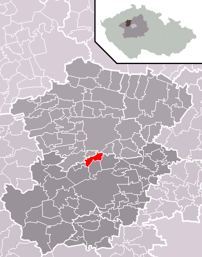 Location of Třebichovice municipality within Kladno District and administrative area of Kladno as a Municipality with Extended Competence.